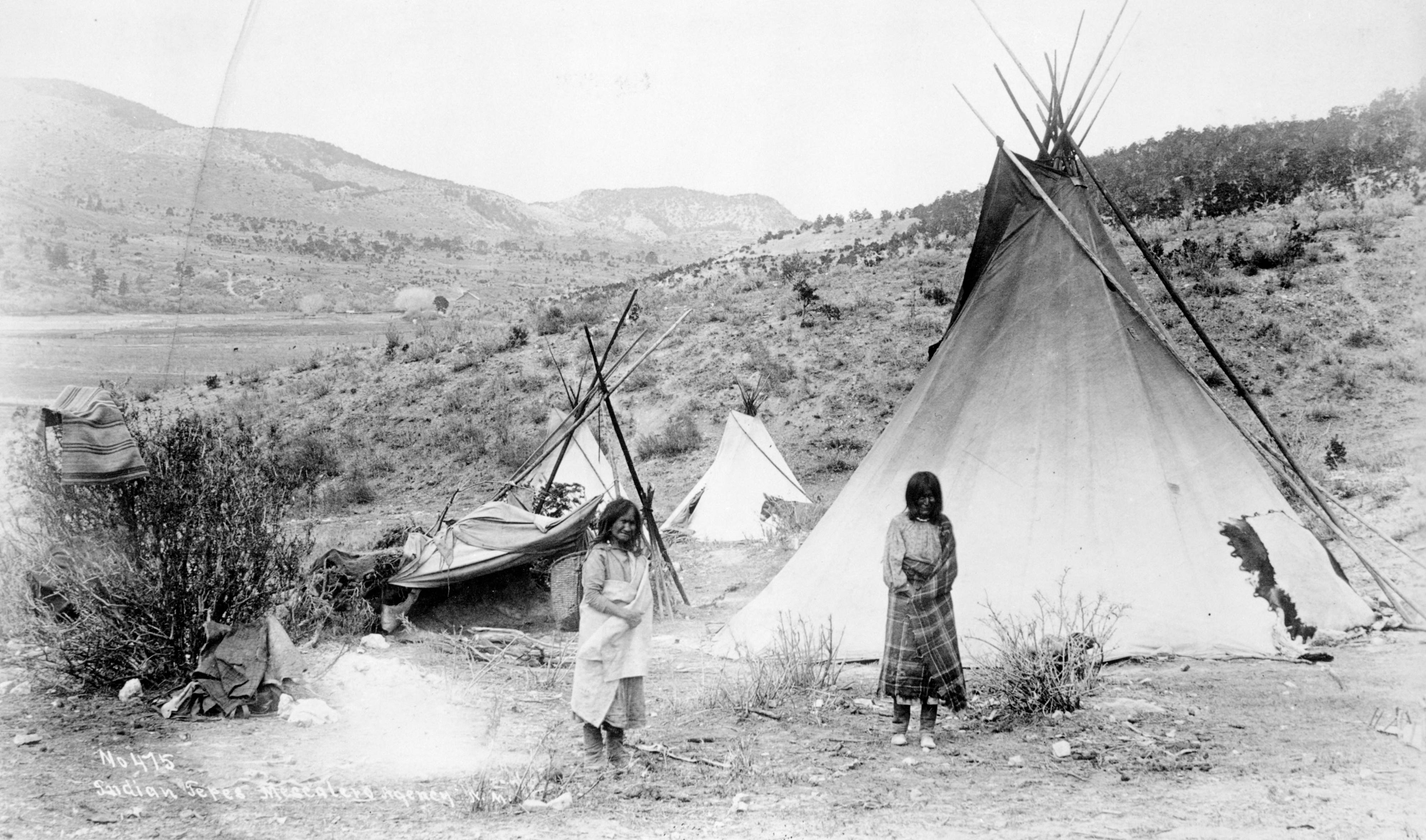 Two Native American Mescalero Apache women stand in their camp near the Mescalero Agency, New Mexico, includes tepees, a brush and canvas ramada (food preparation area,) a burro, a basket, and blankets.